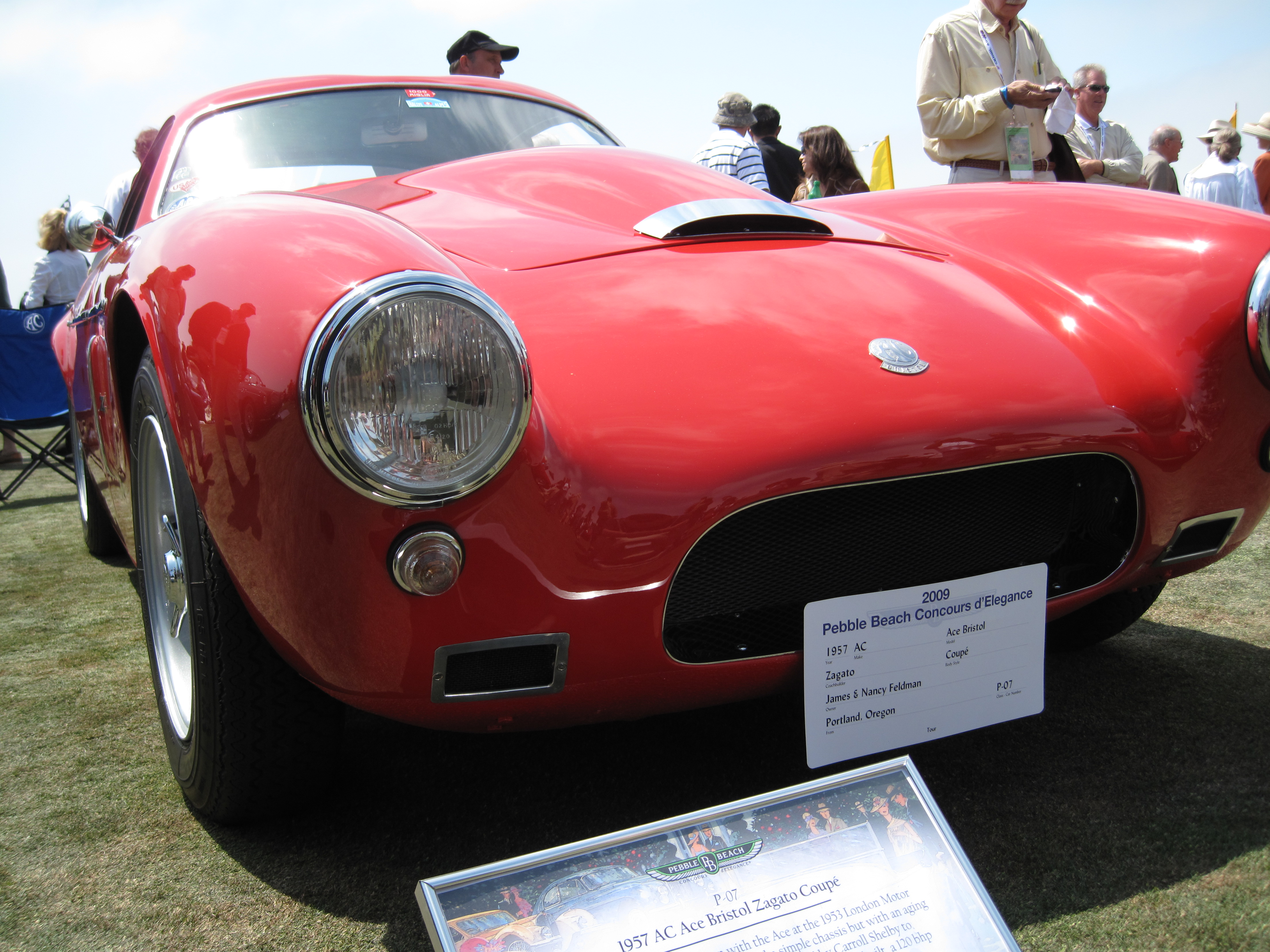 AC Ace Bristol Zagato at Pebble Beach 2009